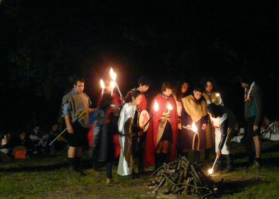 Scout knitwear during the opening ceremony of the "San Giorgio" regional camp of the Region Sardinia (yellow subfield) of 2015 in Abbasanta (OR) in the regional Scout base "San Martino"